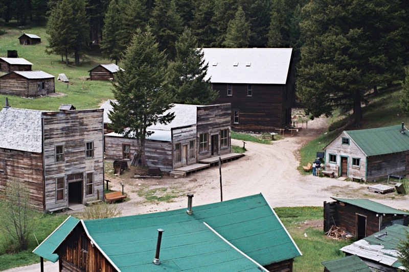 Surviving commercial buildings of ghost town Garnet, Montana, USA.